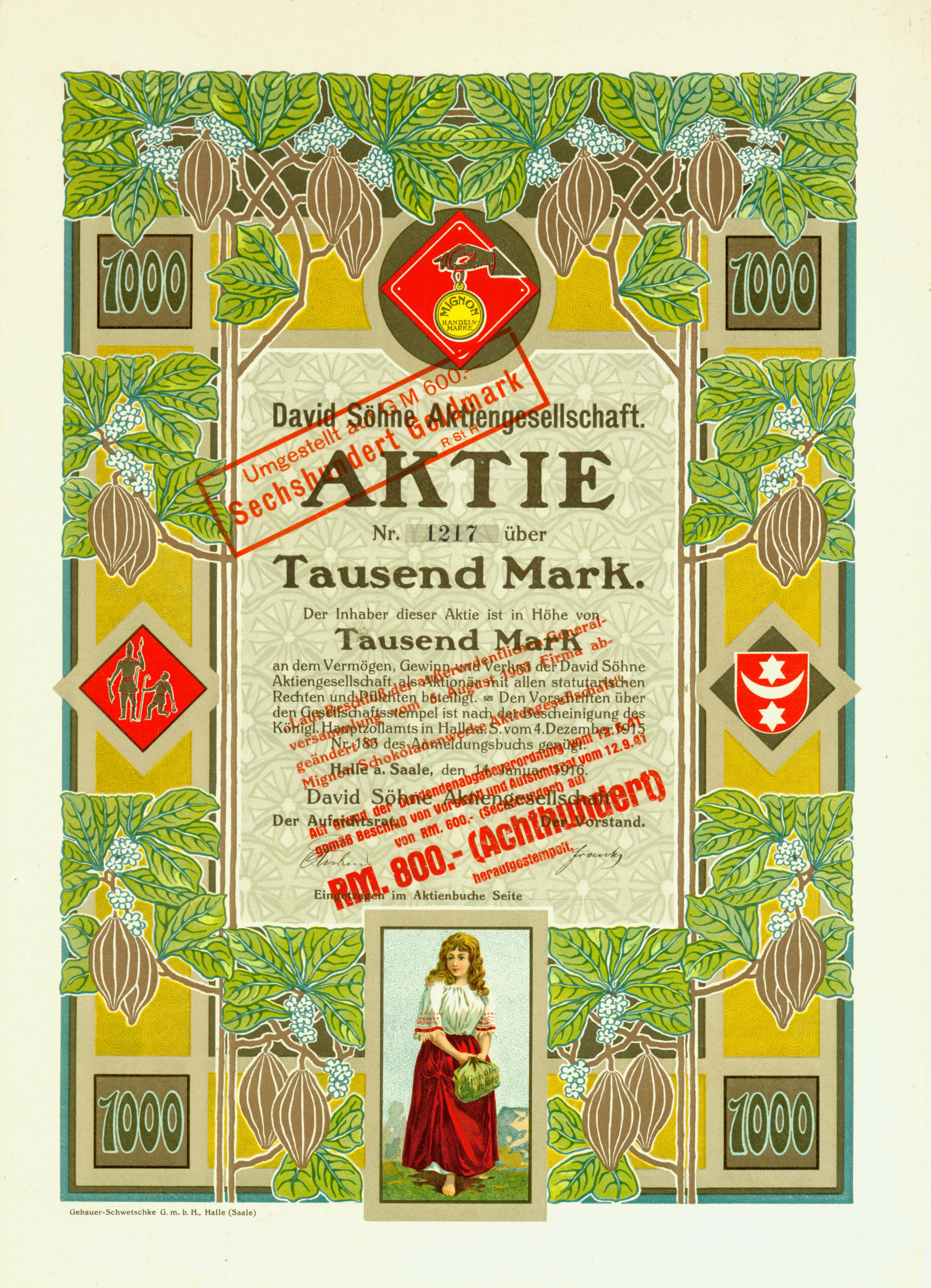 Share of the David Söhne AG, issued 14. January 1916